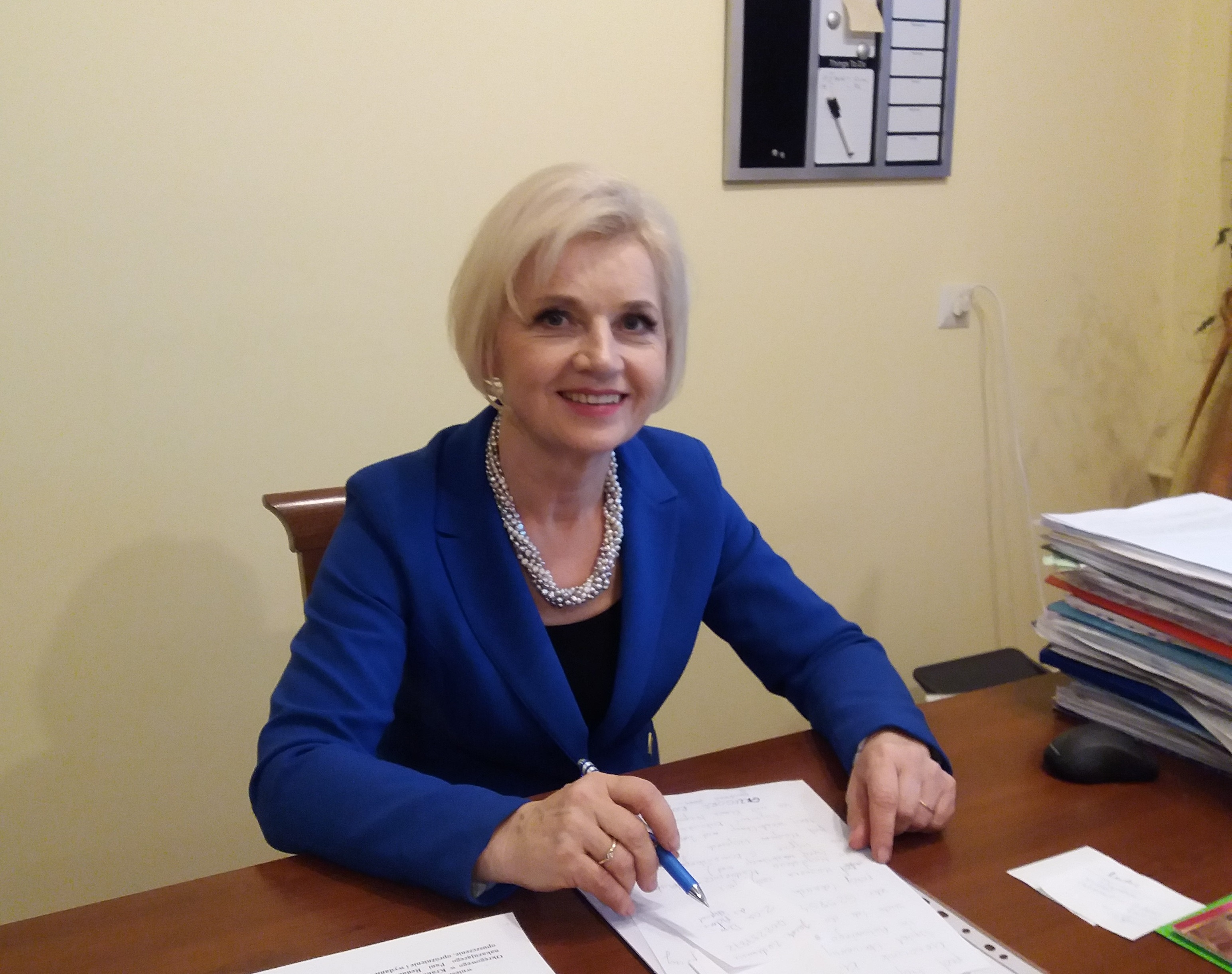 Lidia Staroń - senator of the ninth term of the Senate of the Republic of Poland 2015-2019 in her office